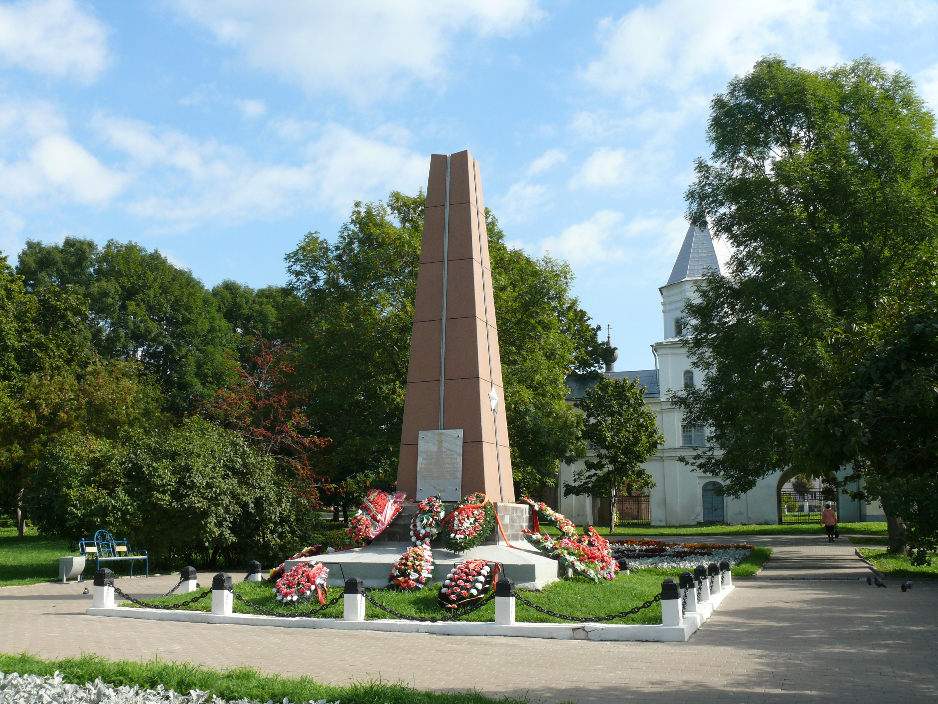 The Monument of war heroes Gerasimenko on the Yaroslav`s court in Veliky Novgorod, Russia